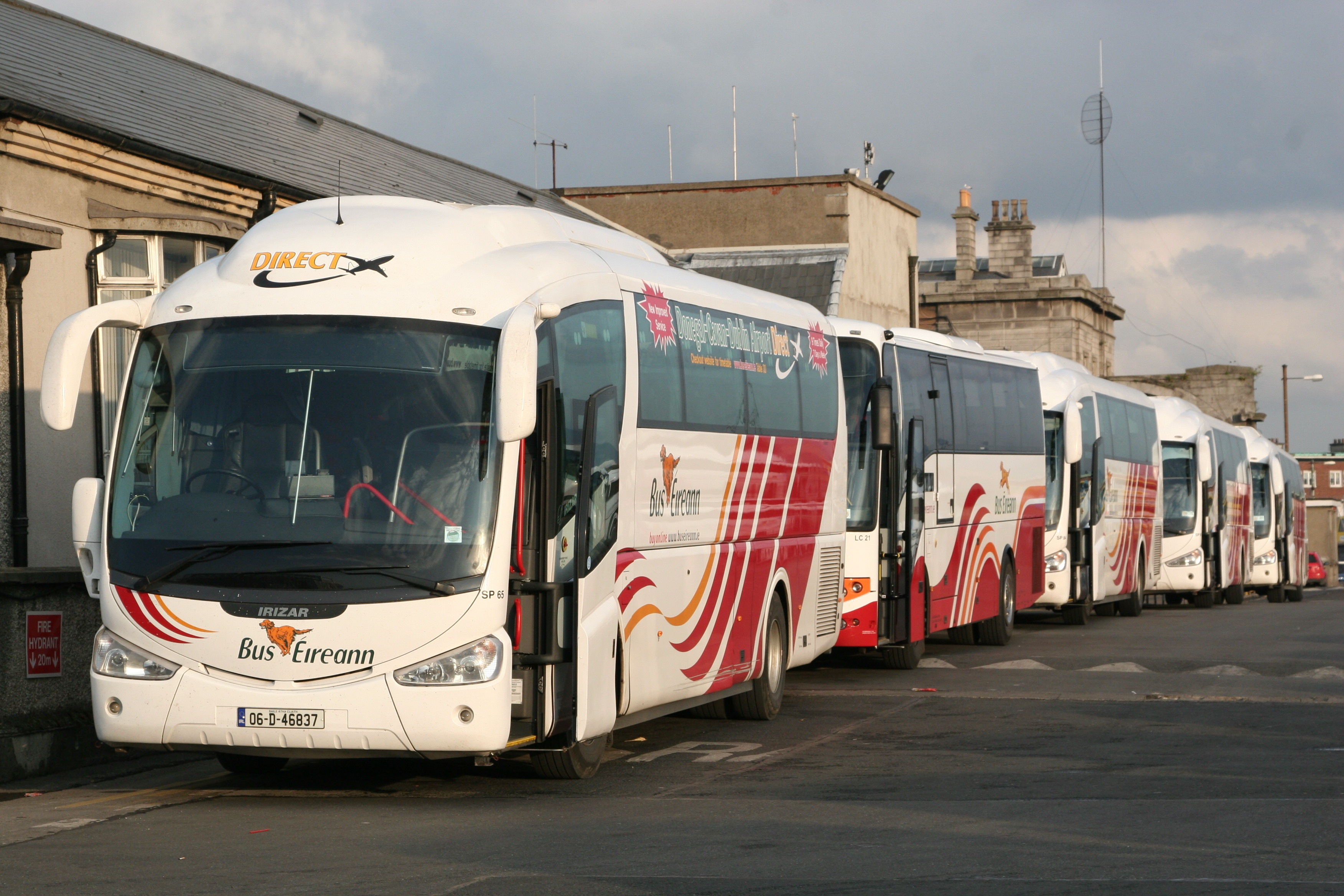 Broadstone July 2008, coaches awaiting wash and fuel